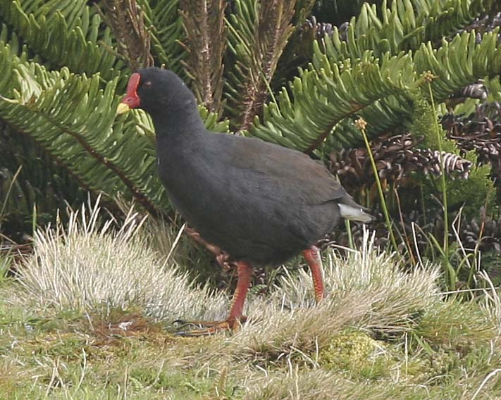 Gough Moorhen (Gallinula comeri) on Tristan da Cunha